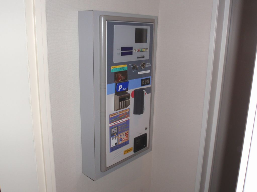 Adjustment machine that exists in room at Japanese Love hotel.